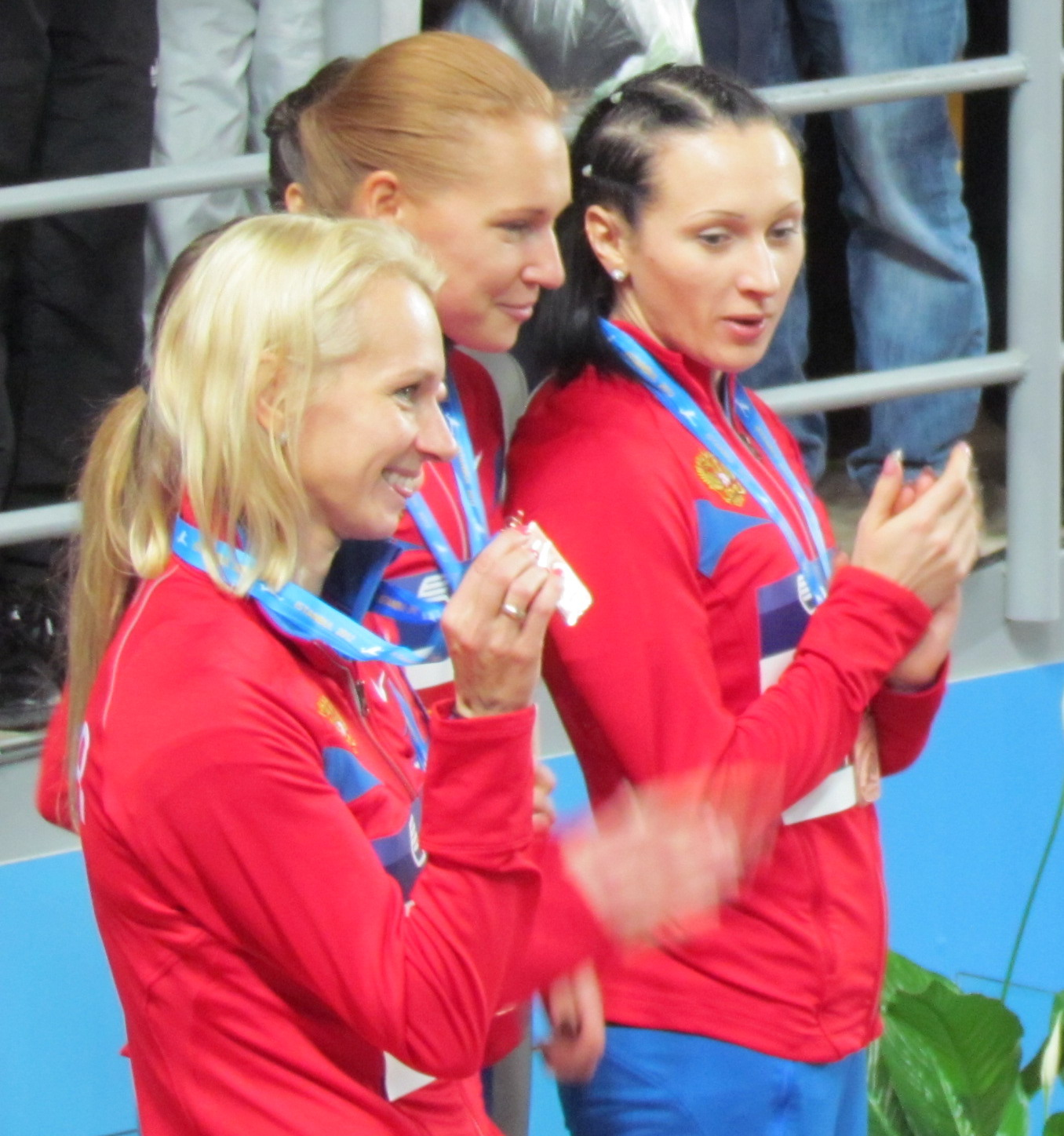 The 2012 IAAF World Indoor Championships in Athletics was the 14th edition of the global-level indoor track and field competition and was held between March 9–11, 2012 at the Ataköy Athletics Arena in Istanbul, Turkey. Yulia Gushchina, Marina Karnaushchenko, Aleksandra Fedoriva, Sebastian Coe